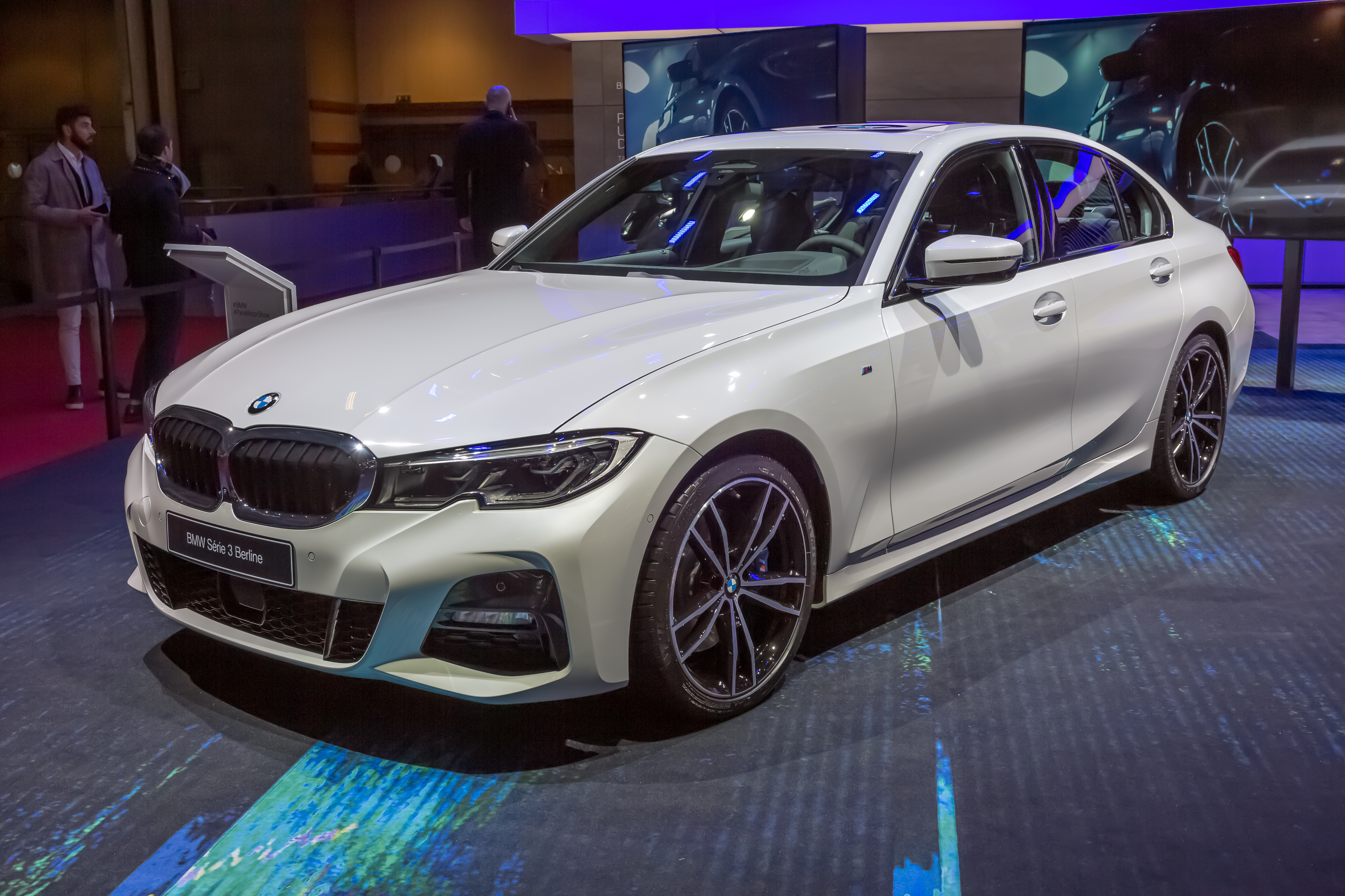 BMW G20, Modial Paris Motor Show 2018